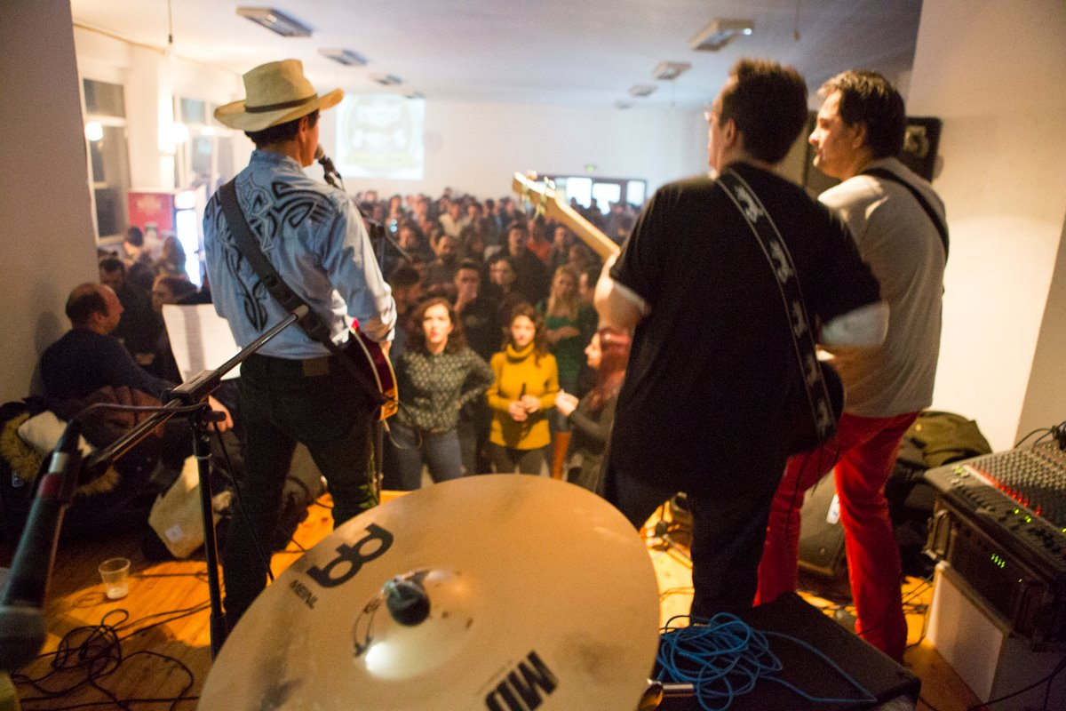 Bend na zimskom festivalu piva